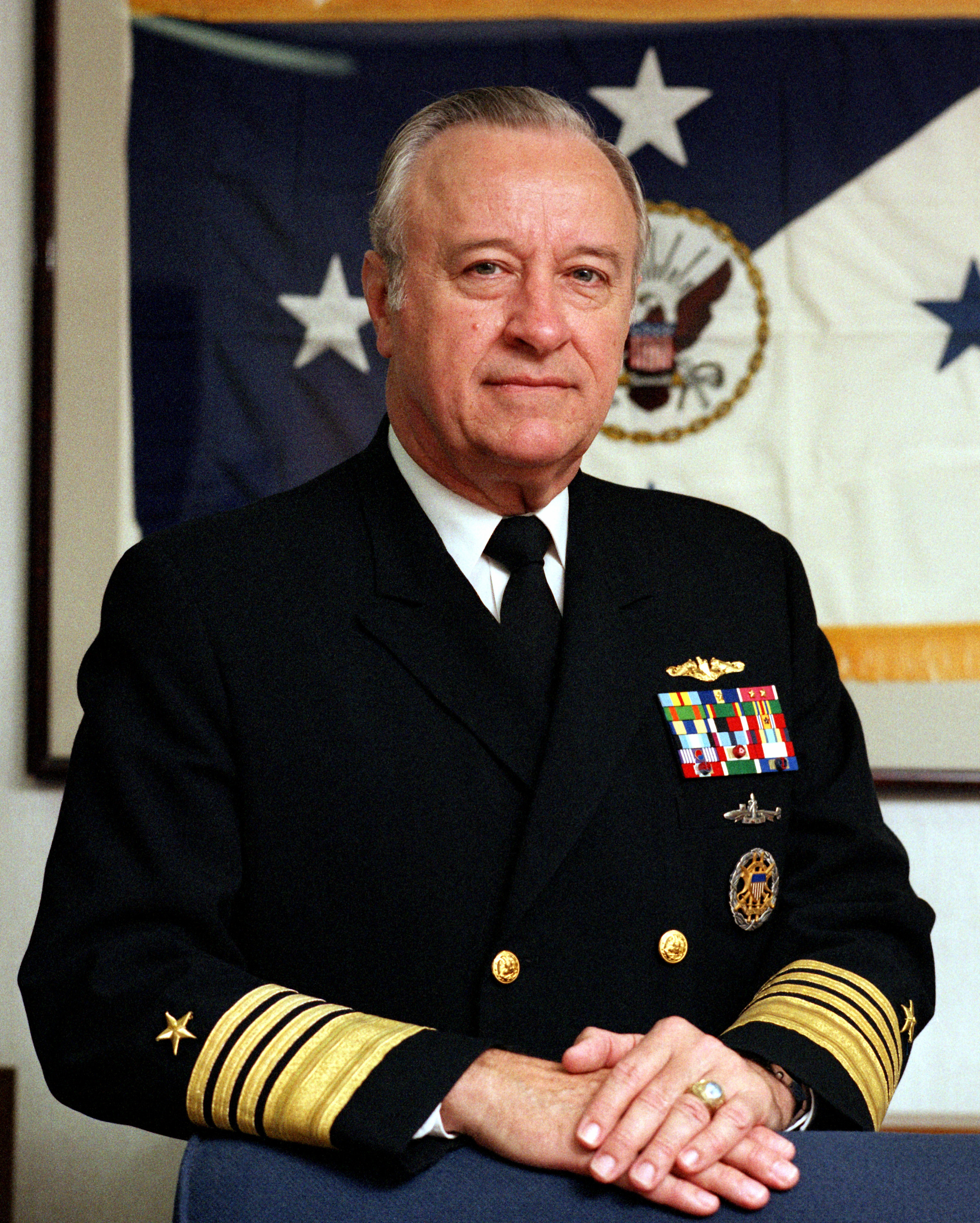 Carlisle Trost, former Chief of Naval Operations.